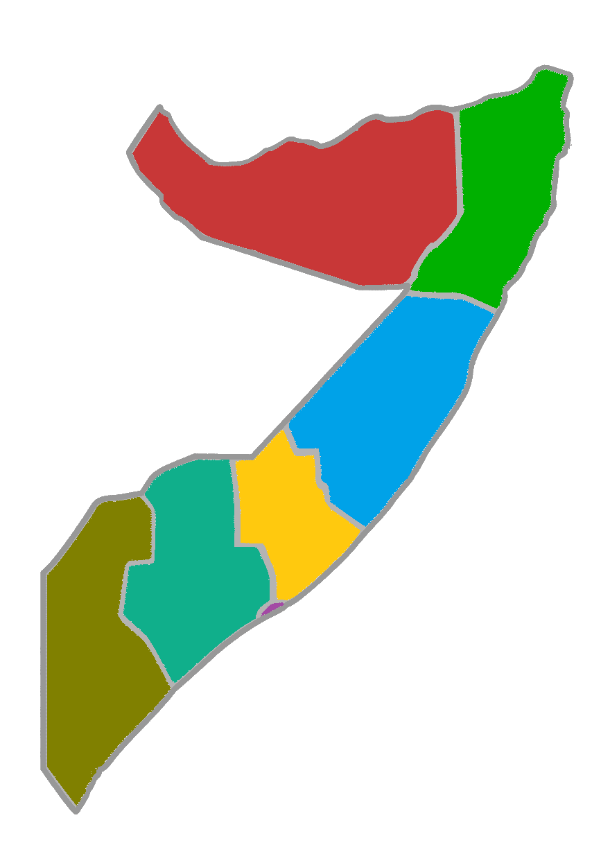 Somaliland Puntland Galmudug Hirshabelle Mogadishu (federal capital) South West State of Somalia Jubaland